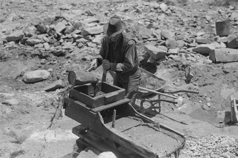 Gold prospector pouring water through his "rocker," Pinos Altos, New Mexico. He was born in Fremont, Nebraska on Eugene Fields's death day and so was named Eugene by a romantically minded mother. Pinos Altos, New Mexico